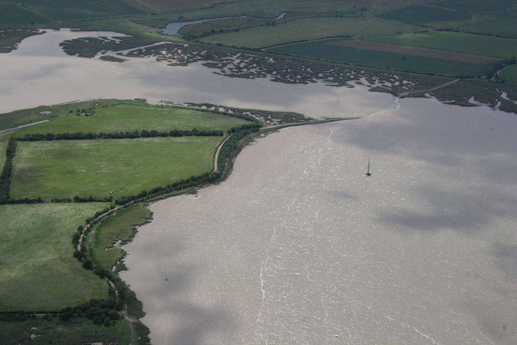 Northey Island Site of Battle of Maldon